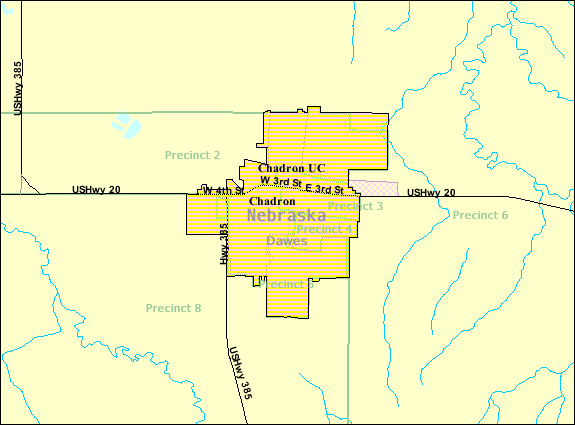 Map of Chadron, a city in Dawes County, Nebraska, United States, with its boundaries at the time of the 2000 census.